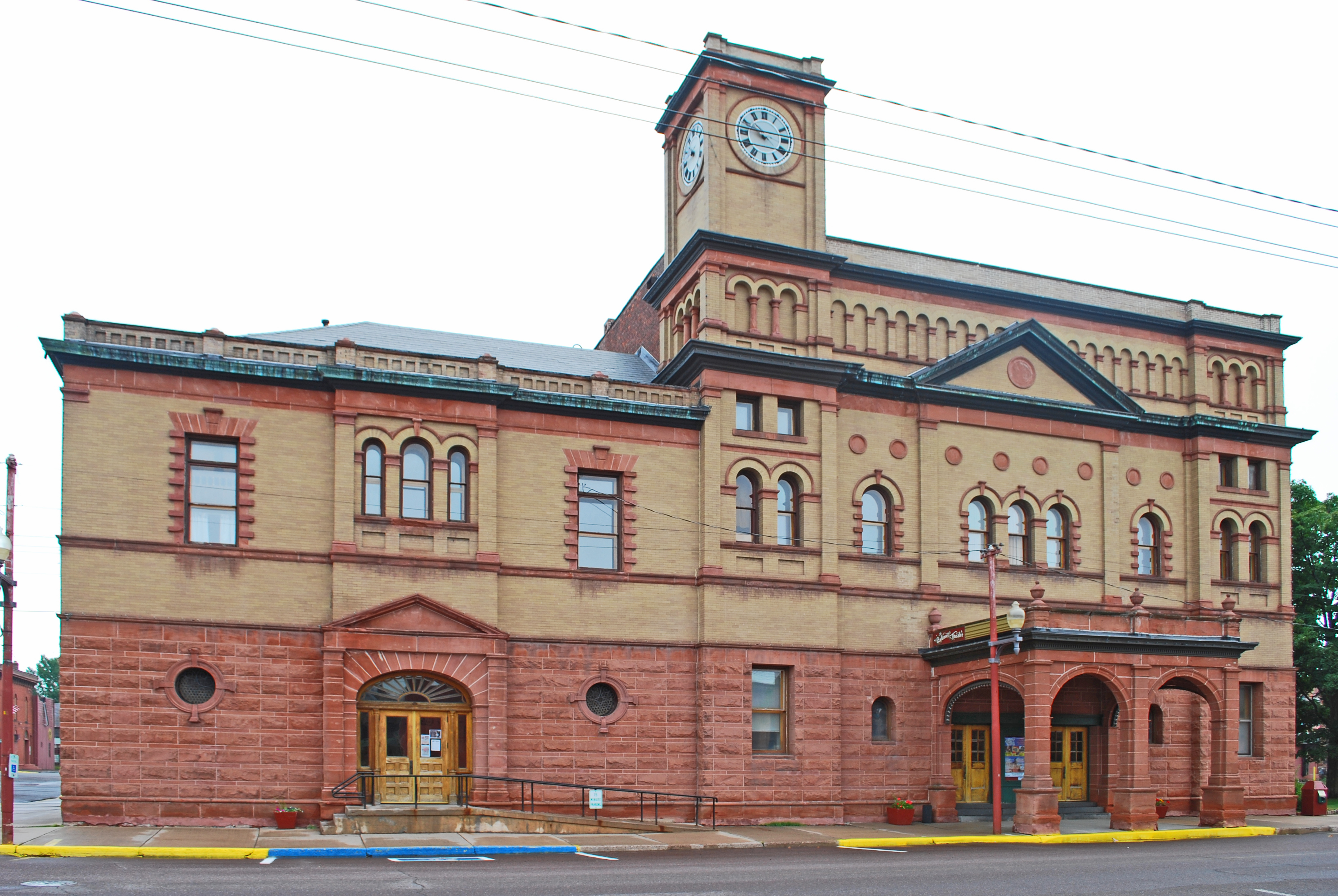 The Calumet Theater — in the Calumet Downtown Historic District. The stone Renaissance Revival style opera house and theater is in Calumet, on the Upper Peninsula of Michigan. Built in 1900, a Michigan State Historic Site, and on the National Register of Historic Places in Houghton County, Michigan.